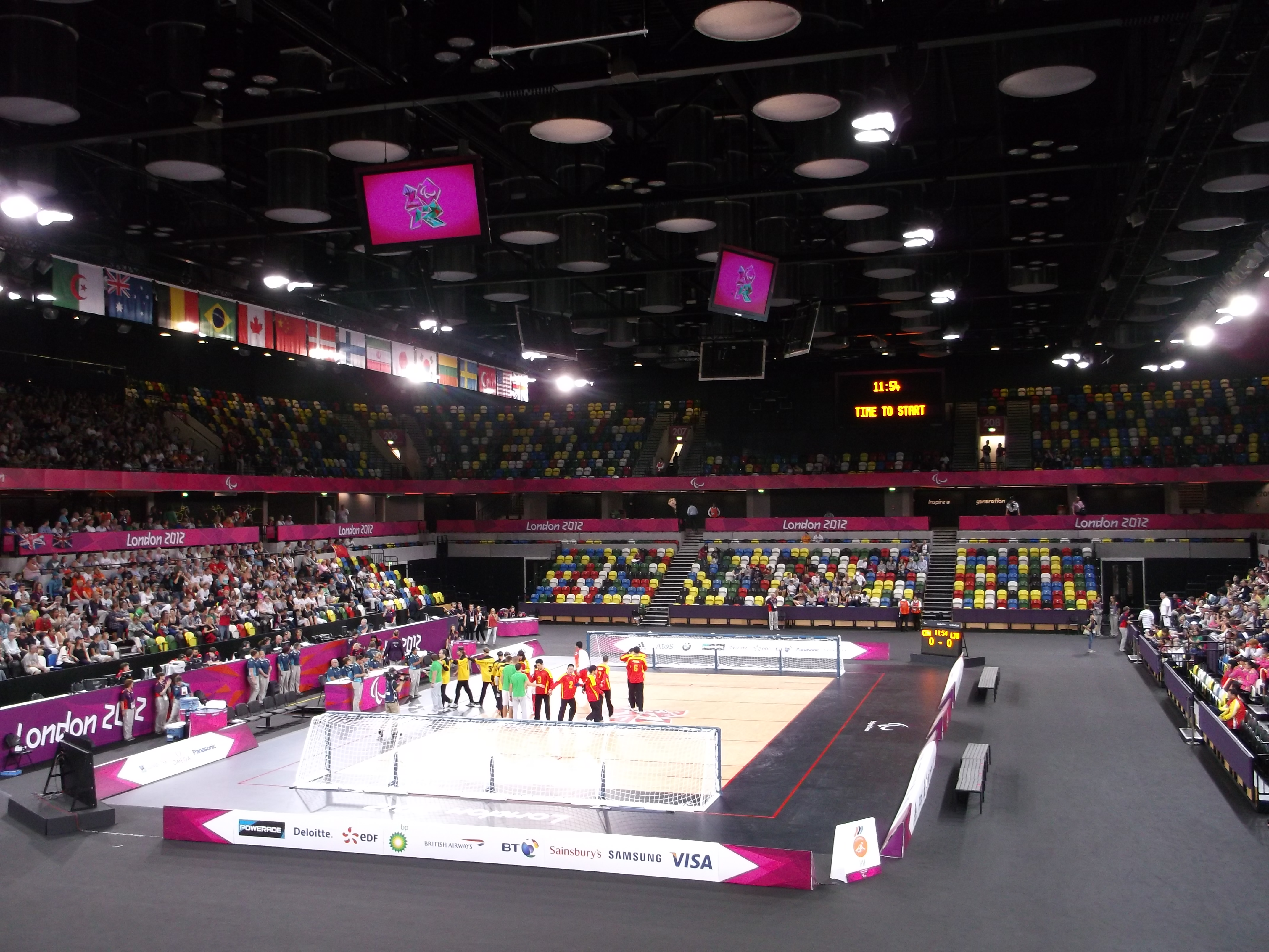 Inside the Copperbox, Olympic Park